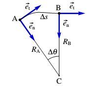 Raio de curvatura.